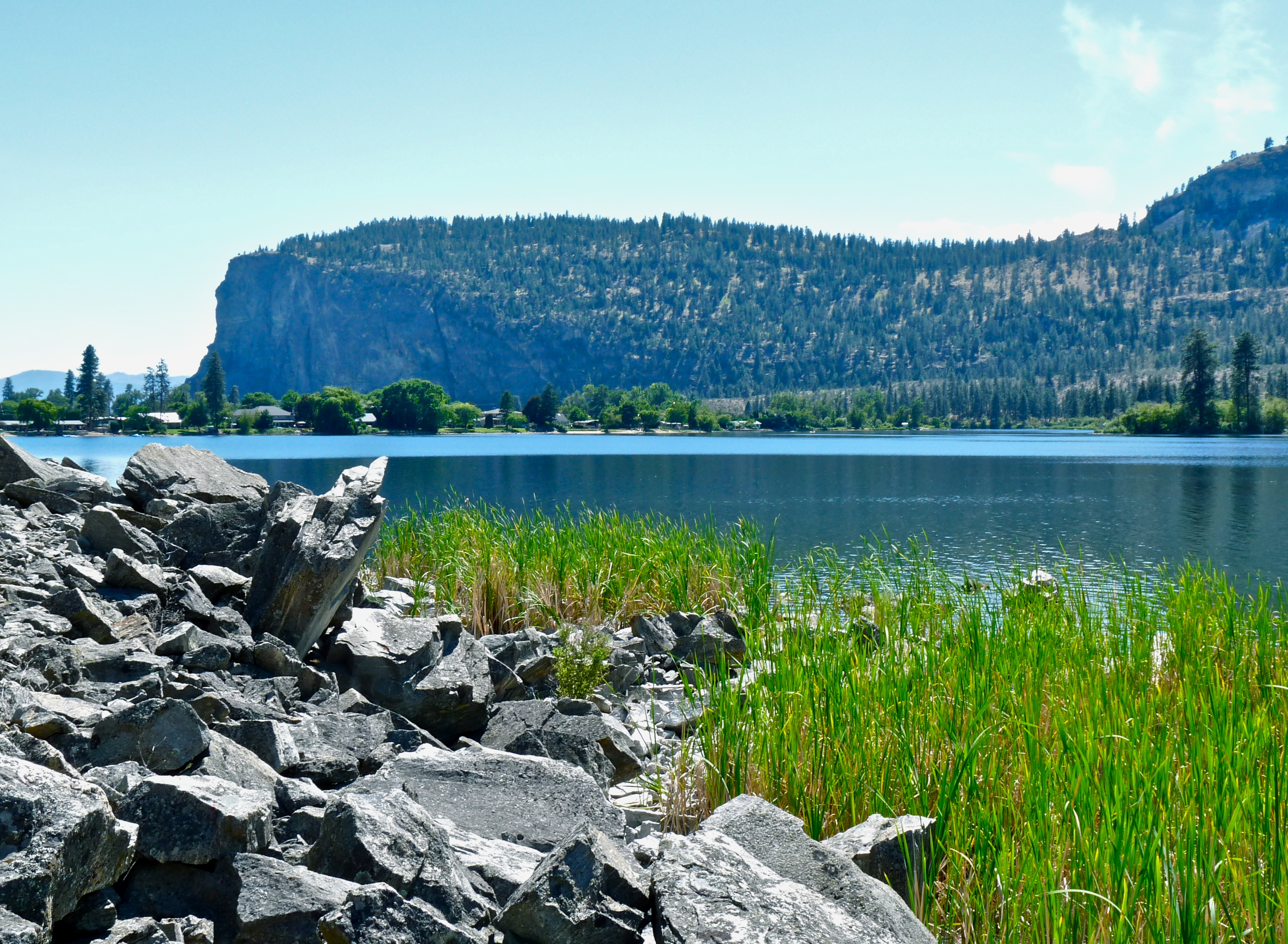 Looking towards McIntyre Bluff and across Vaseux Lake in the Okanagan Valley of southern British Columbia